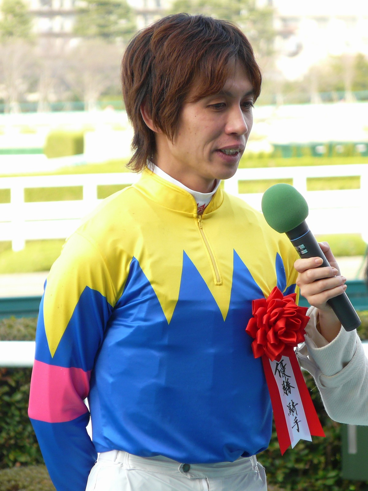 Kunihiko-Watanabe20100314